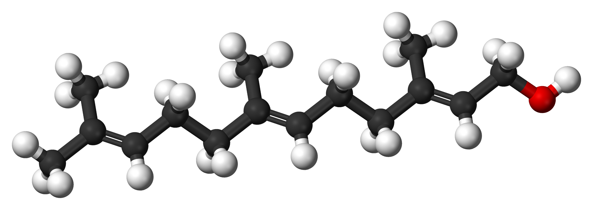 Ball-and-stick model of the farnesol molecule.